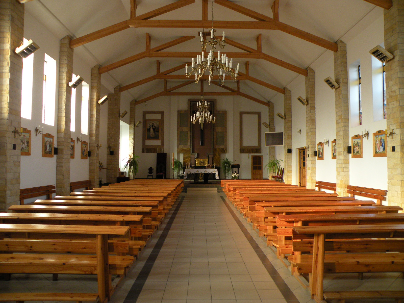 St. Hyacinth Church in Kętrzyn, Poland